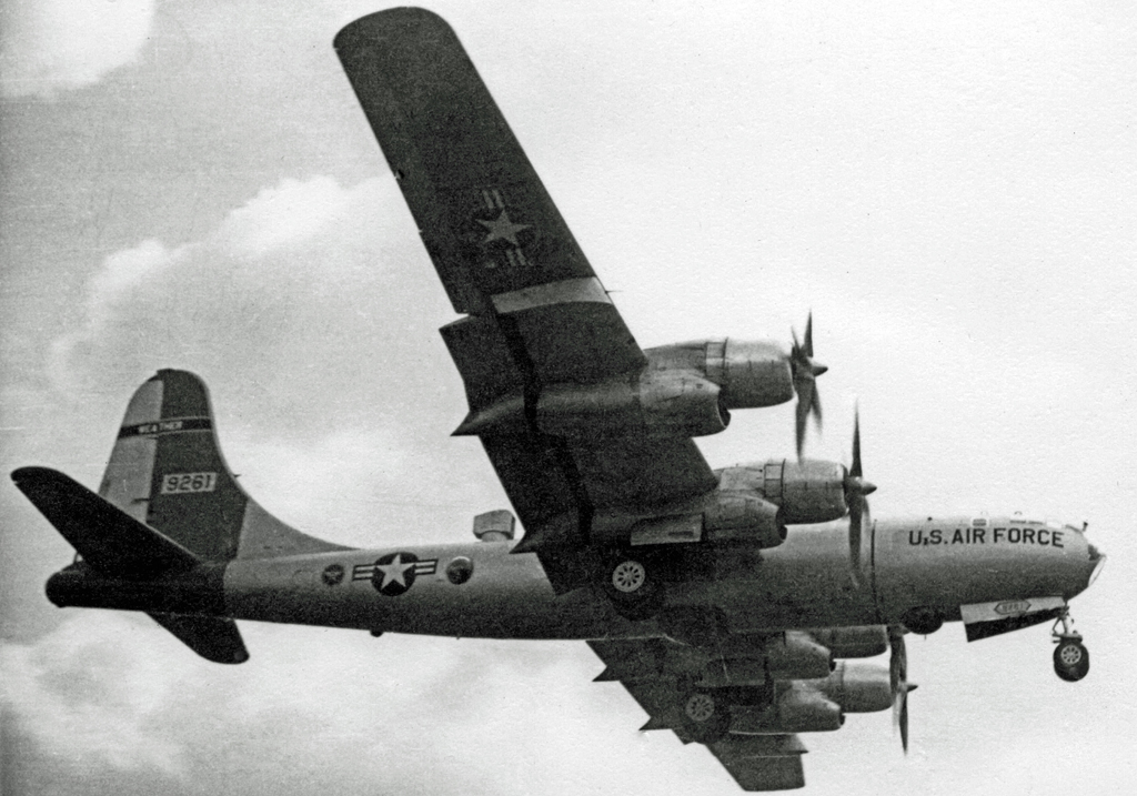 Boeing WB-50D Superfortress weather ship of the 53 Weather Reconnaissance Squadron landing at its base at RAF Burtonwood Lancashire England